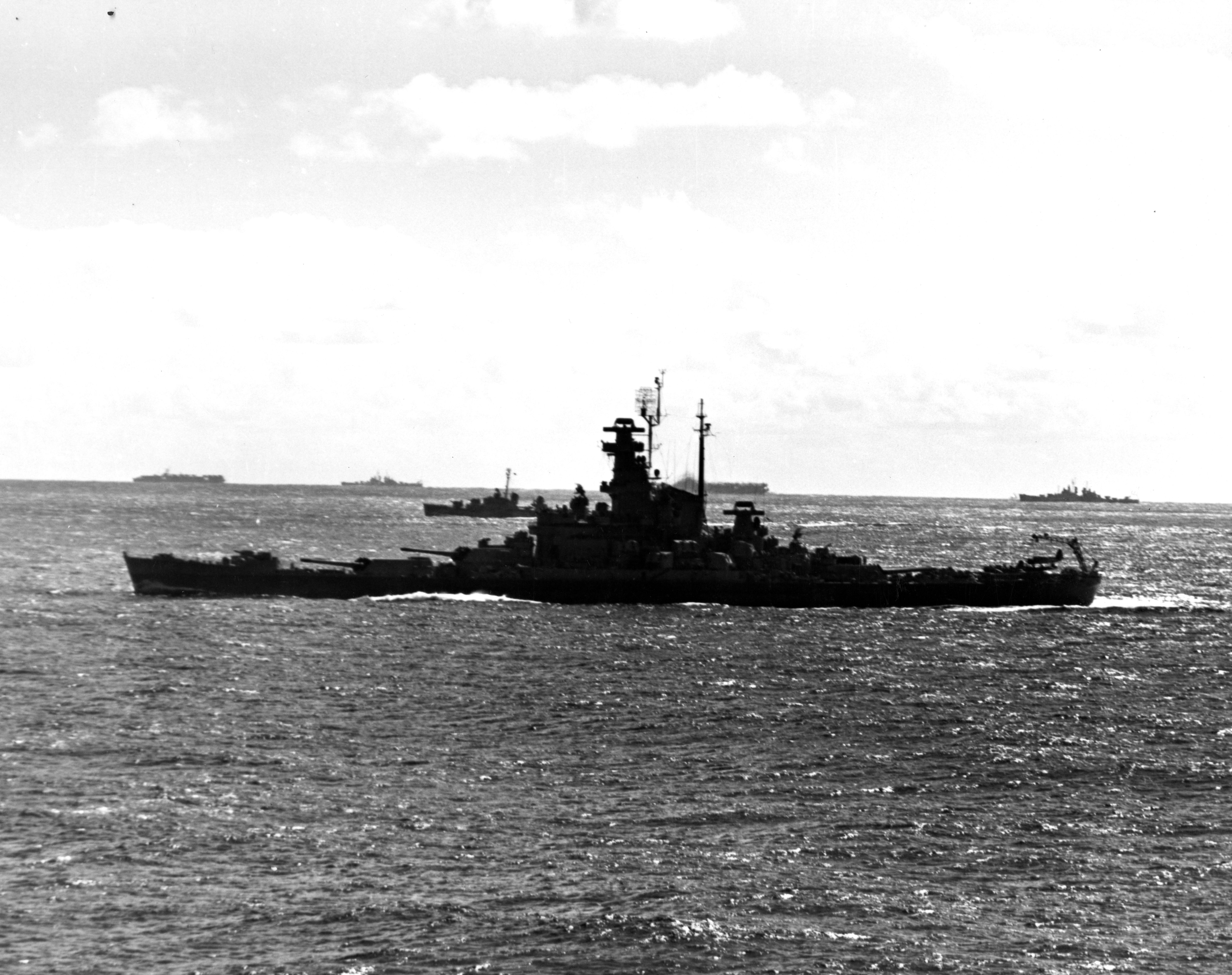 Underway with Task Force 58.1 on 12 February 1945, while en route to raid Tokyo . Ships of Task Group 58.3 are in the background. Taken by a USS Wasp (CV-18) photographer. Official U.S. Navy Photograph, now in the collections of the National Archives.